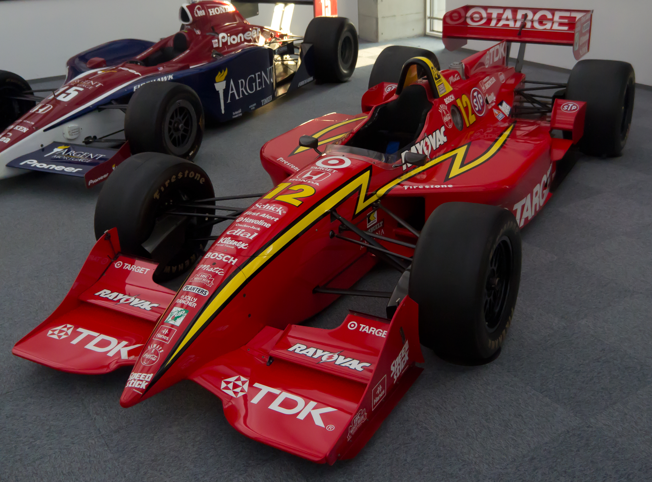 1996 Reynard 96I (#12 Jimmy Vasser, Chip Ganassi Racing)